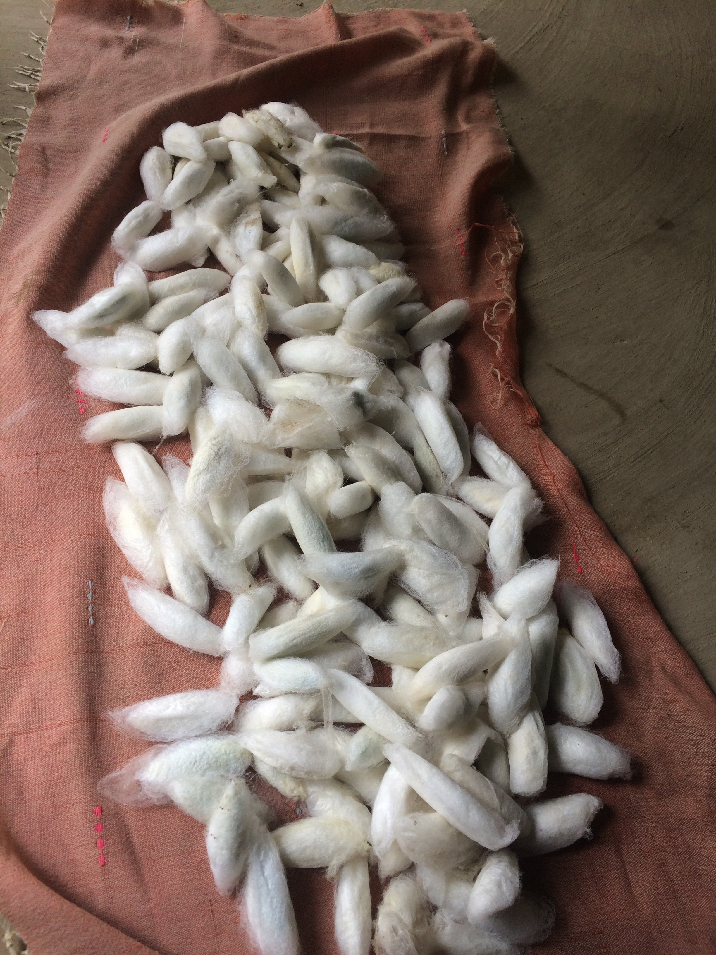 Photo of Eri cocoons seen at 7Weaves, used in production of Eri silk in Assam by indigenous communities